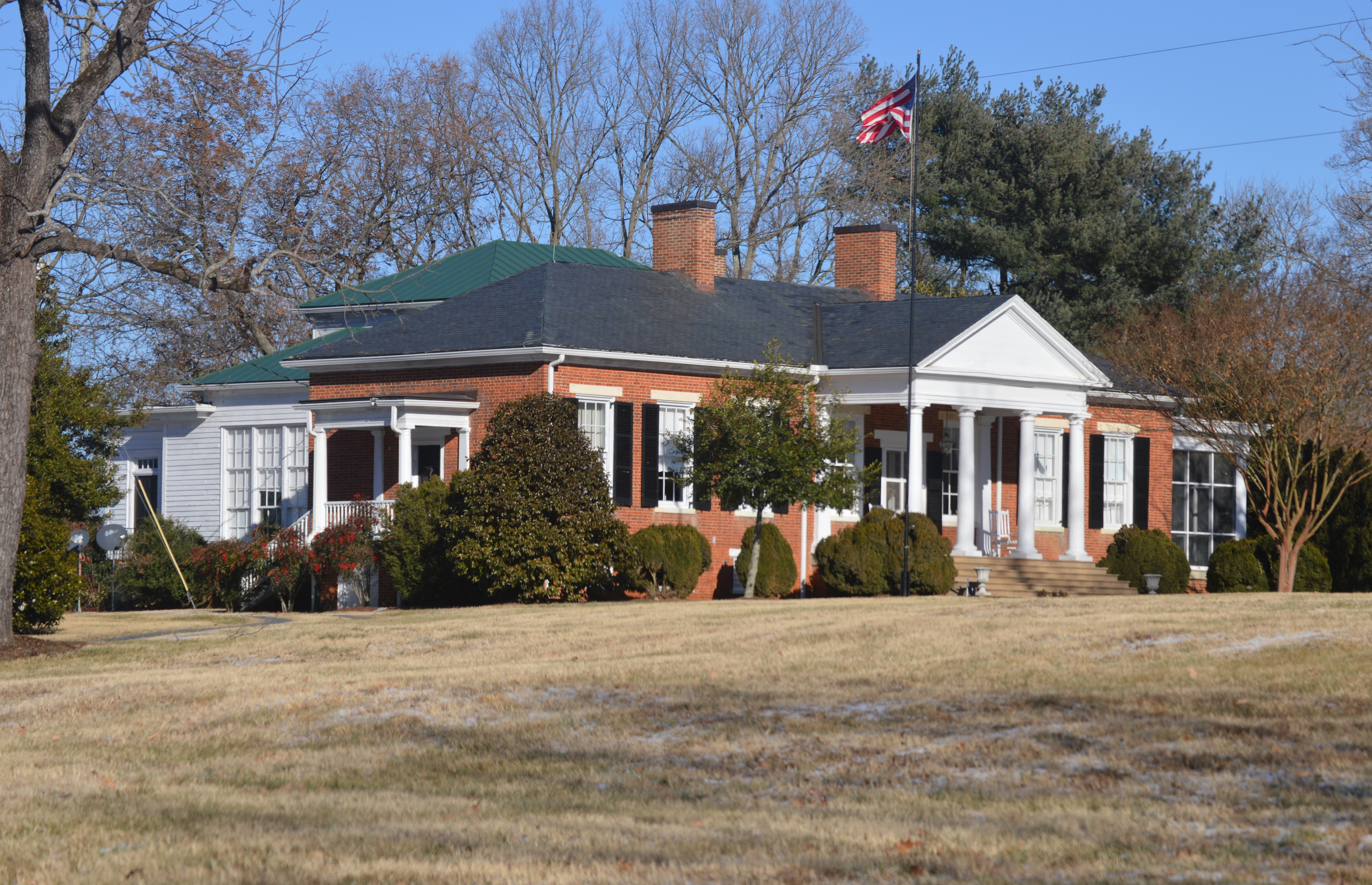 Front of the Ampthill estate house, located on Ampthill Road north of Cartersville in Cumberland County, Virginia, United States. Built in 1837, it is listed on the National Register of Historic Places.